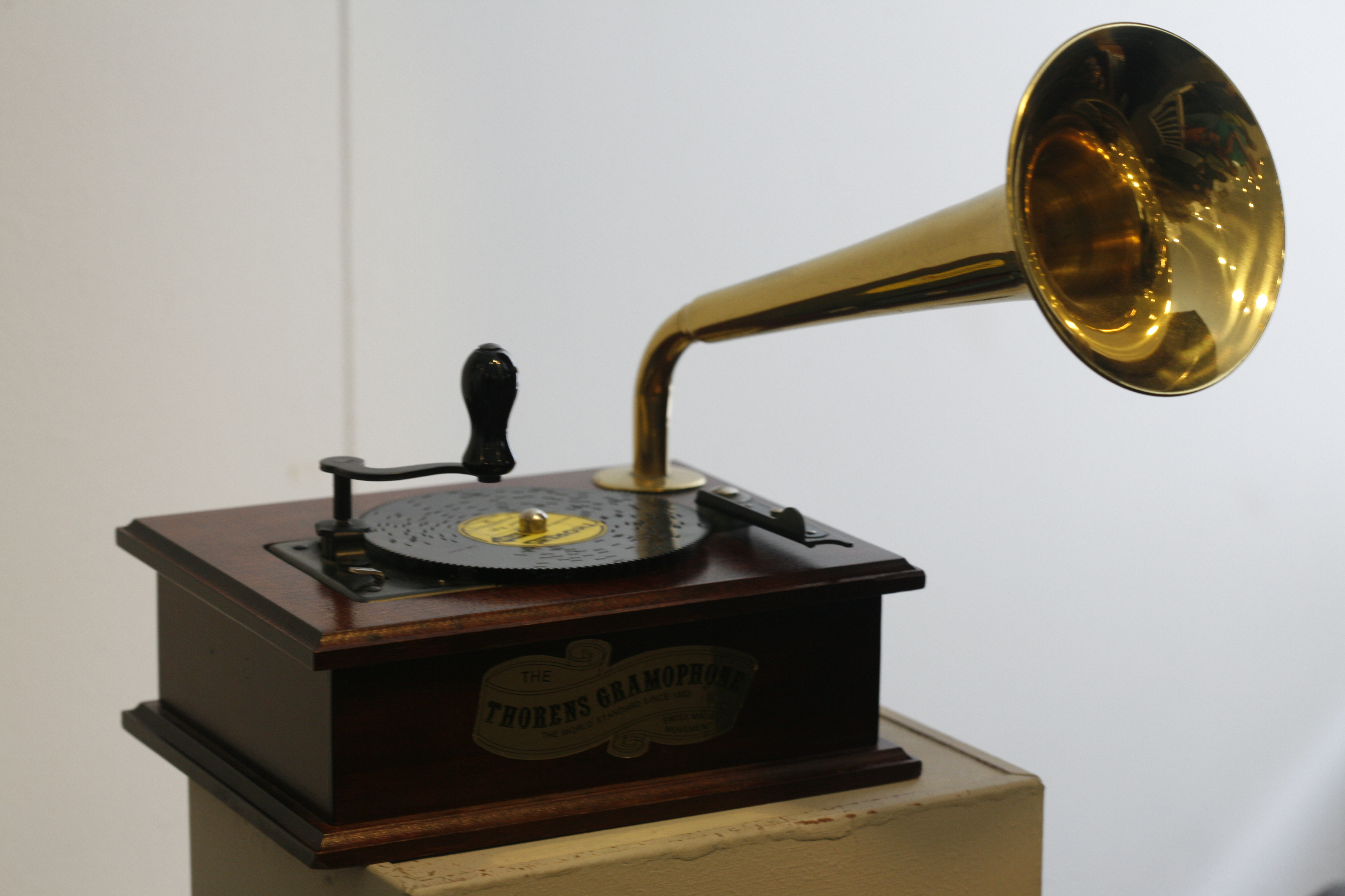 CIMA museum (Centre International de la Mécanique d'Art)